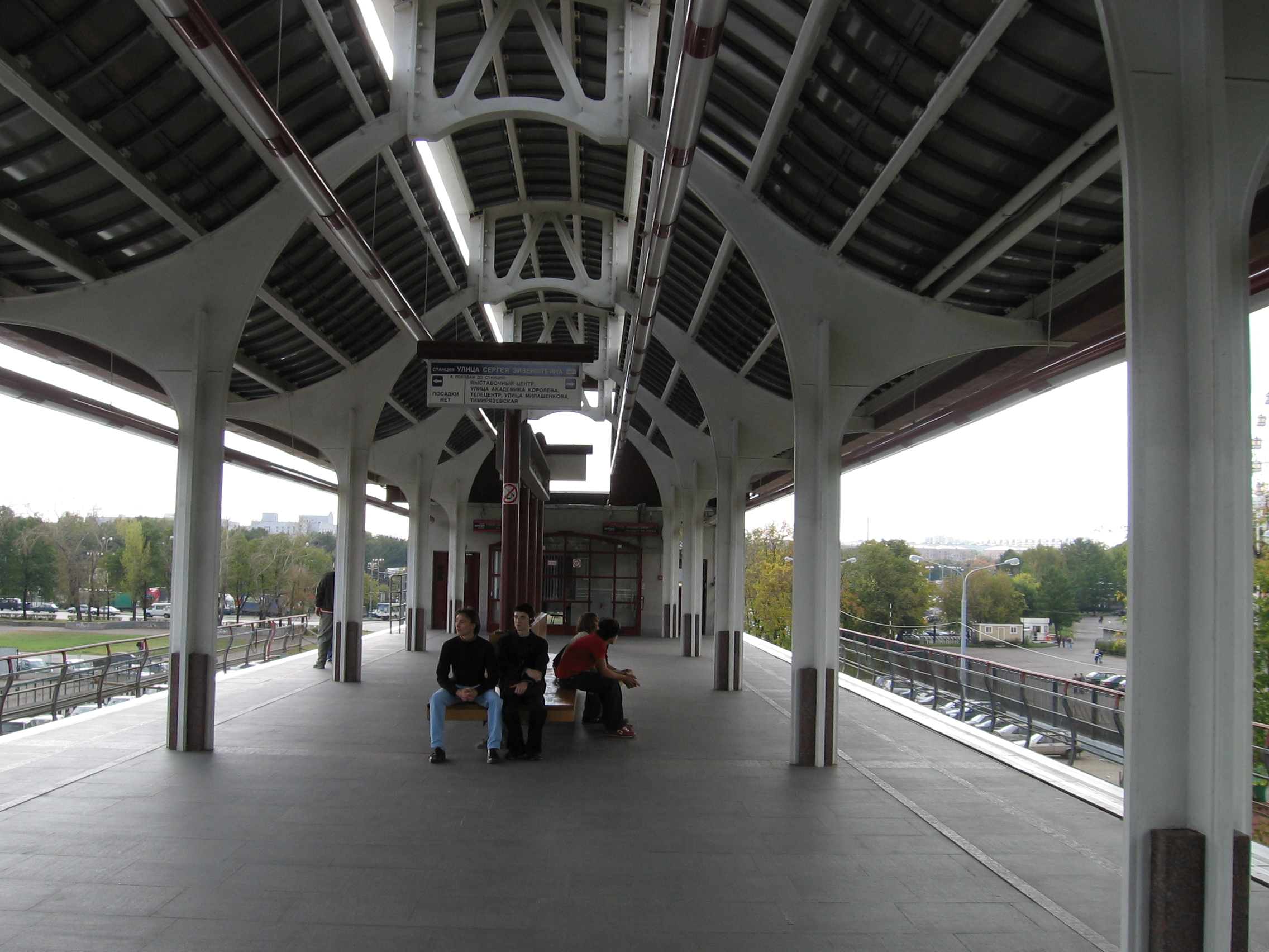 Moscow monorail station "Ulitsa Sergeya Eizenshteina".